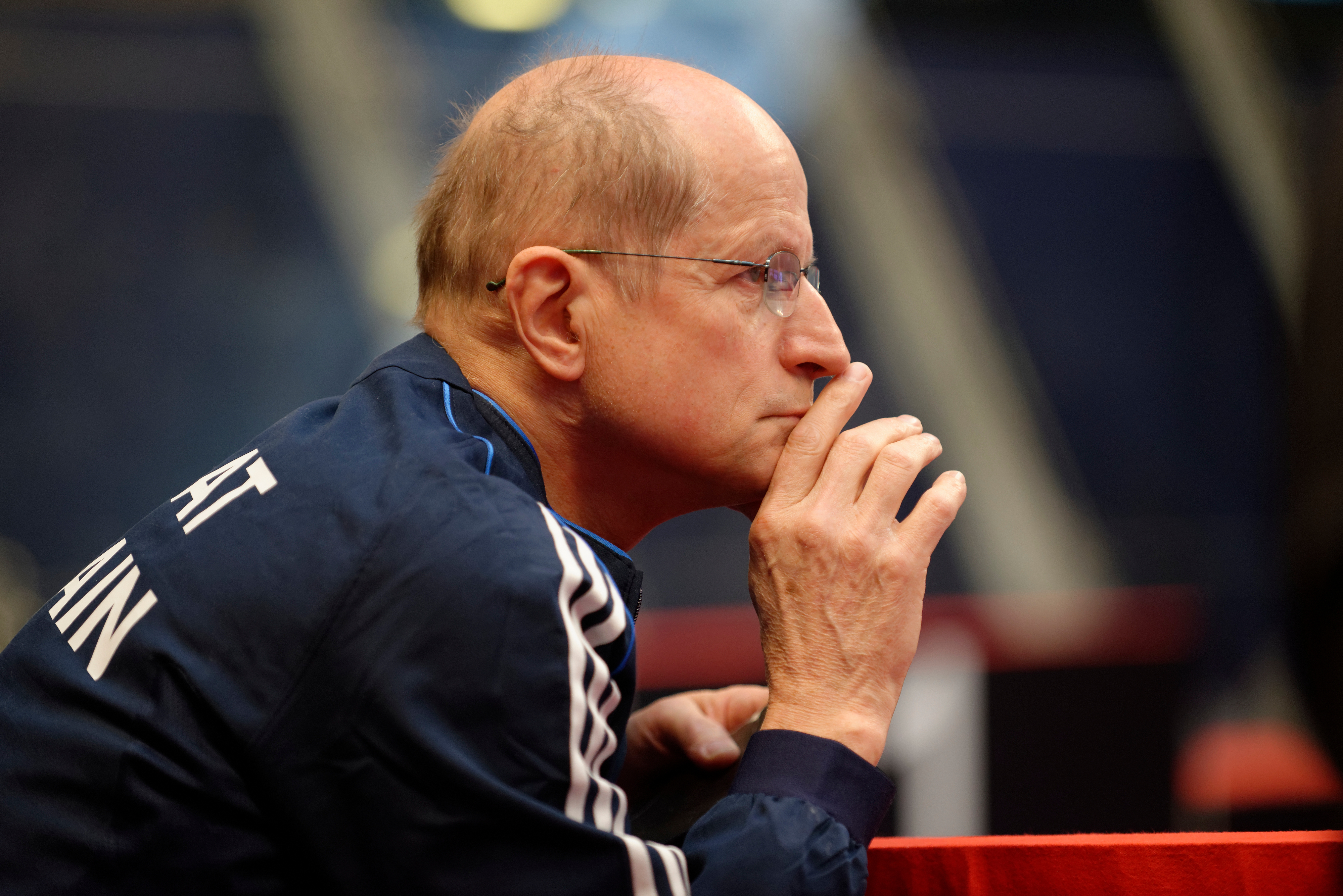 Great Britain's national coach Ziemowit Wojciechowski at the Challenge International de Paris (men's foil World Cup).